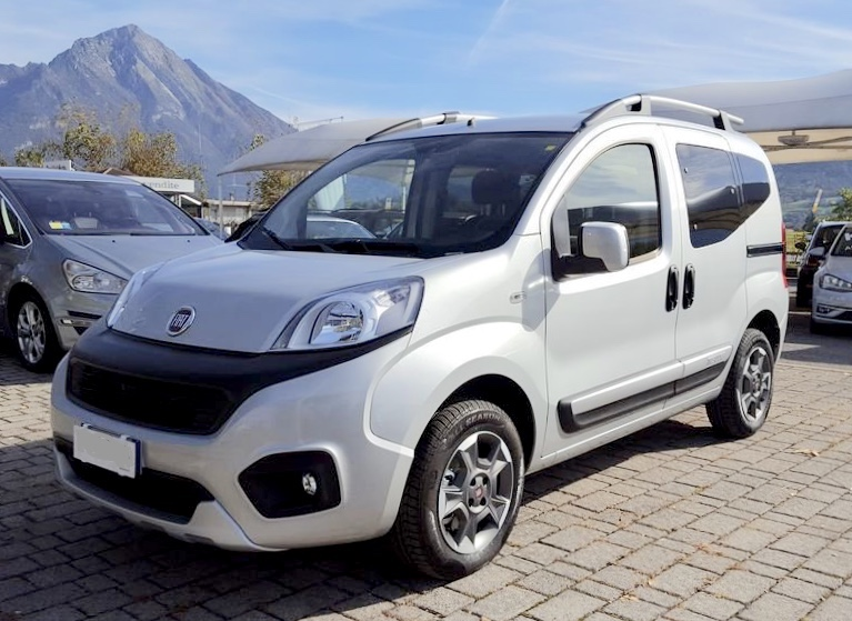 2018 Fiat Qubo Trekking 1.3 Multijet